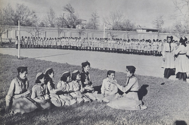 Afghan Girl Scouts. Original caption: "Hundreds of Afghan youngsters take active part in Scout programs."